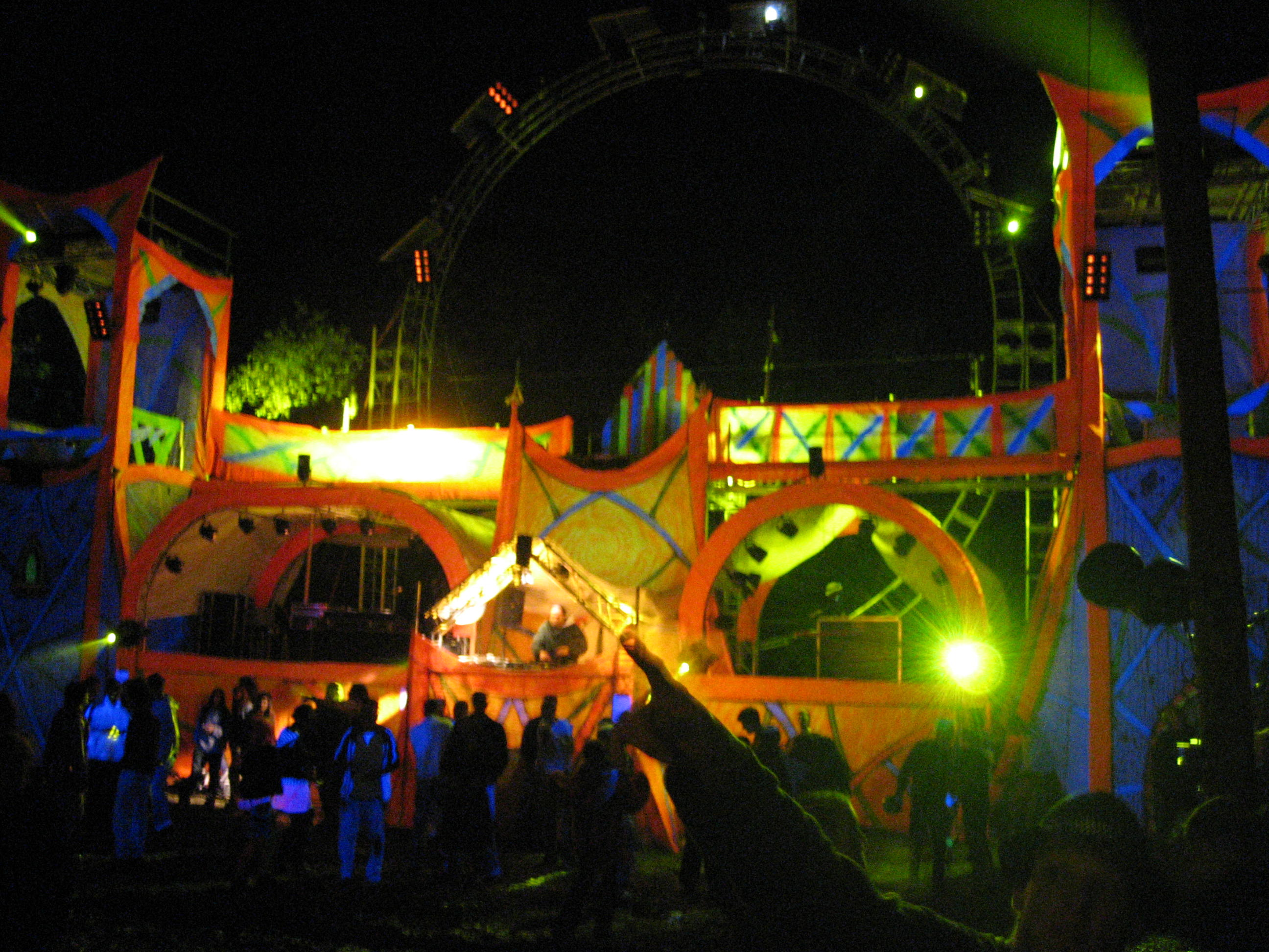 Zoom 2006 goa party at Reitplatz in Winterthur, Switzerland.